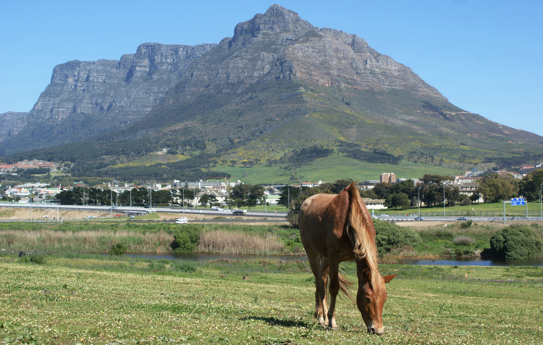 This media shows a South African Protected Site with SAHRA file reference 9/2/018/0022.